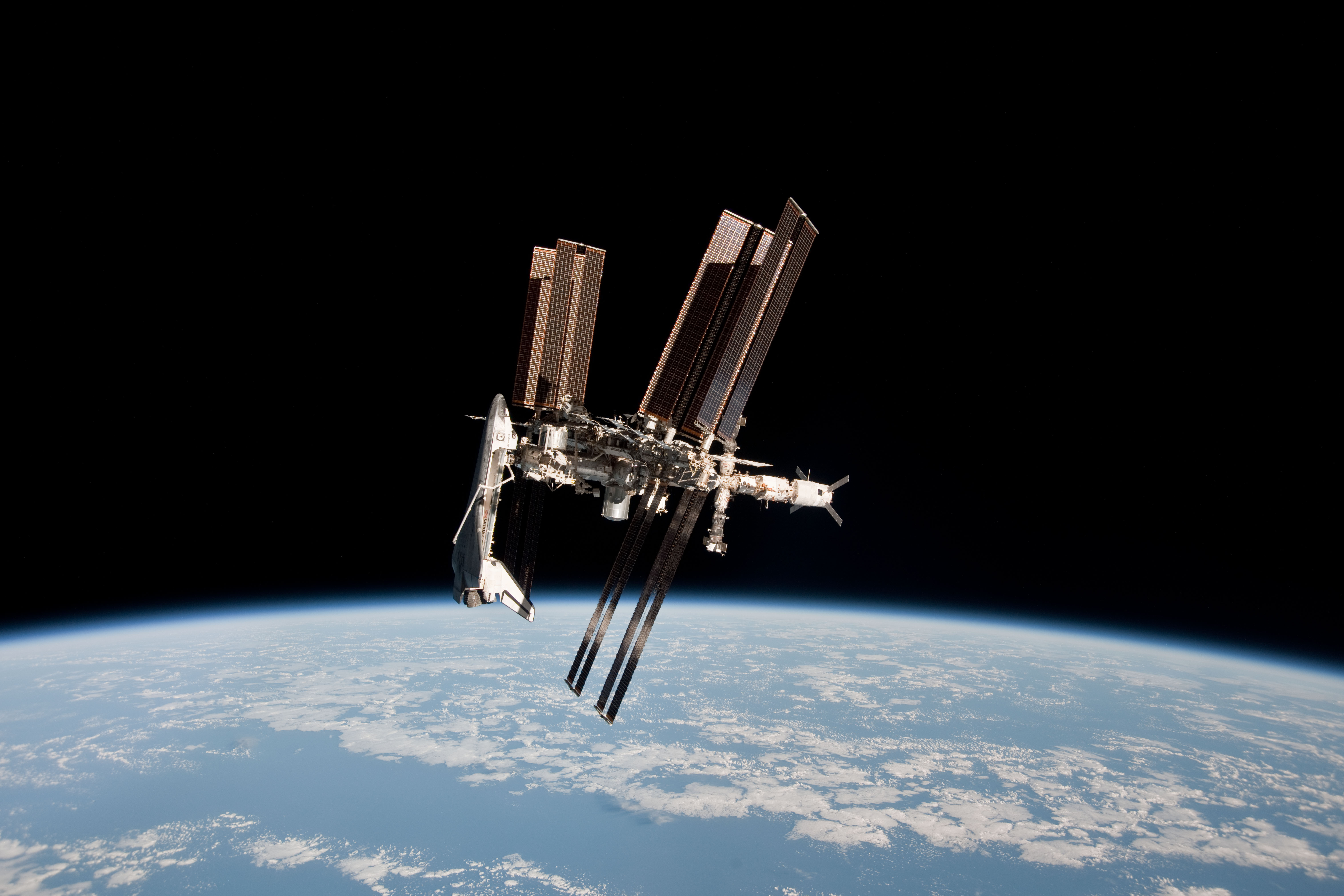 This image of the International Space Station and the docked space shuttle Endeavour, flying at an altitude of approximately 220 miles, was taken by Expedition 27 crew member Paolo Nespoli from the Soyuz TMA-20 following its undocking on May 23, 2011 (USA time). The pictures are the first taken of a shuttle docked to the International Space Station from the perspective of a Russian Soyuz spacecraft. Onboard the Soyuz were Russian cosmonaut and Expedition 27 commander Dmitry Kondratyev; Nespoli, a European Space Agency astronaut; and NASA astronaut Cady Coleman. Coleman and Nespoli were both flight engineers. The three landed in Kazakhstan later that day, completing 159 days in space.